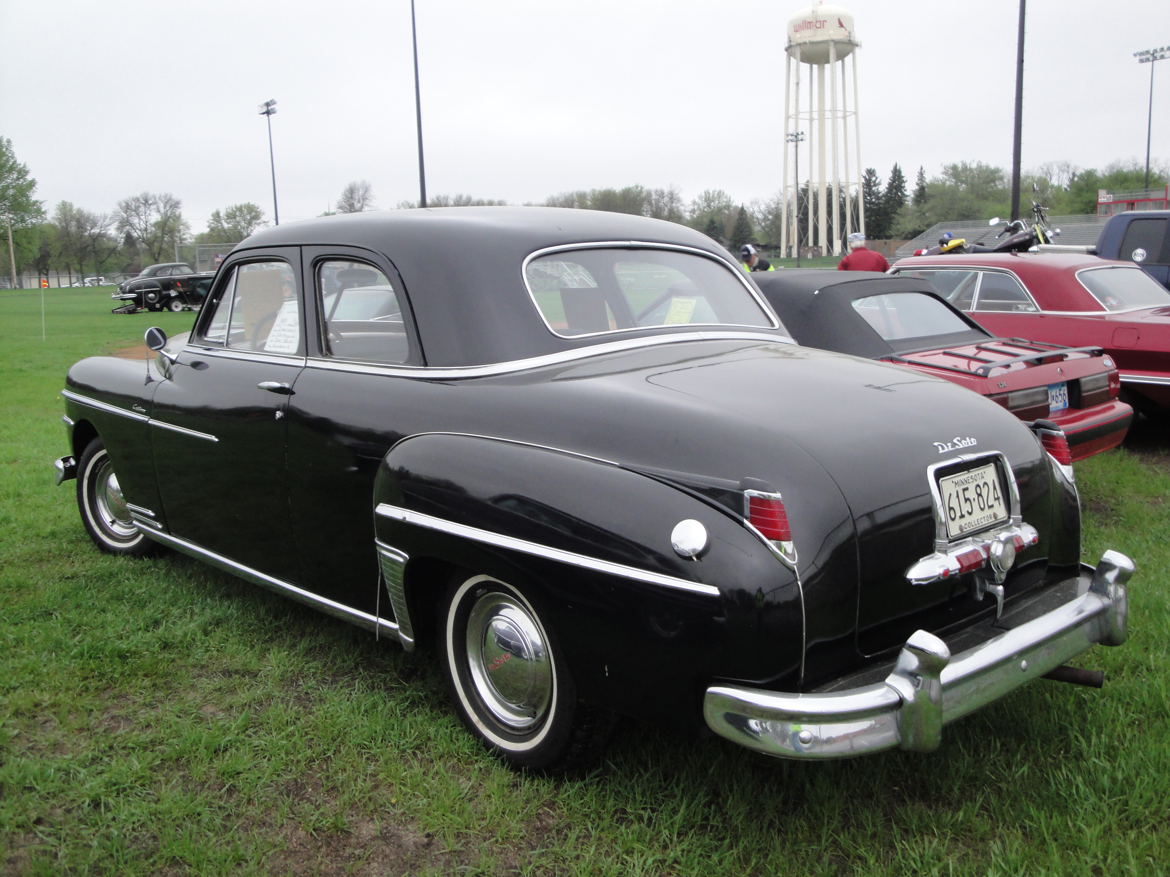 The weather and gas prices did not help the attract large numbers cars to the show, but the afternoon turned out nice. Spectators did not get to see as many cars, but there still was a great variety of very nice cars. Thousands of car pictures at the link below